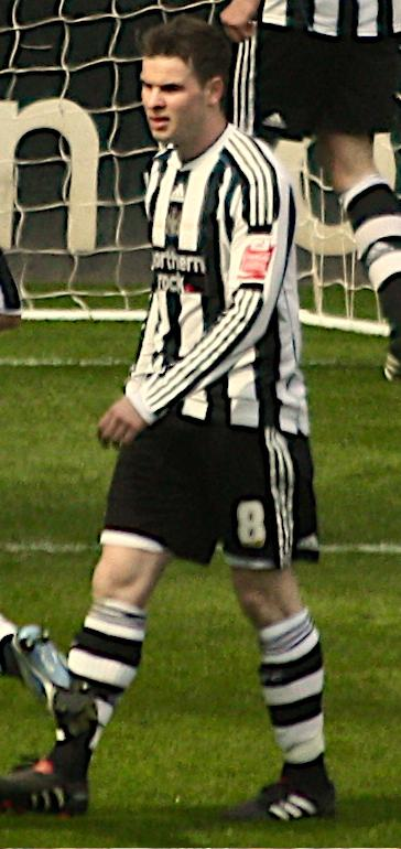 Danny Guthrie playing against Ipswich